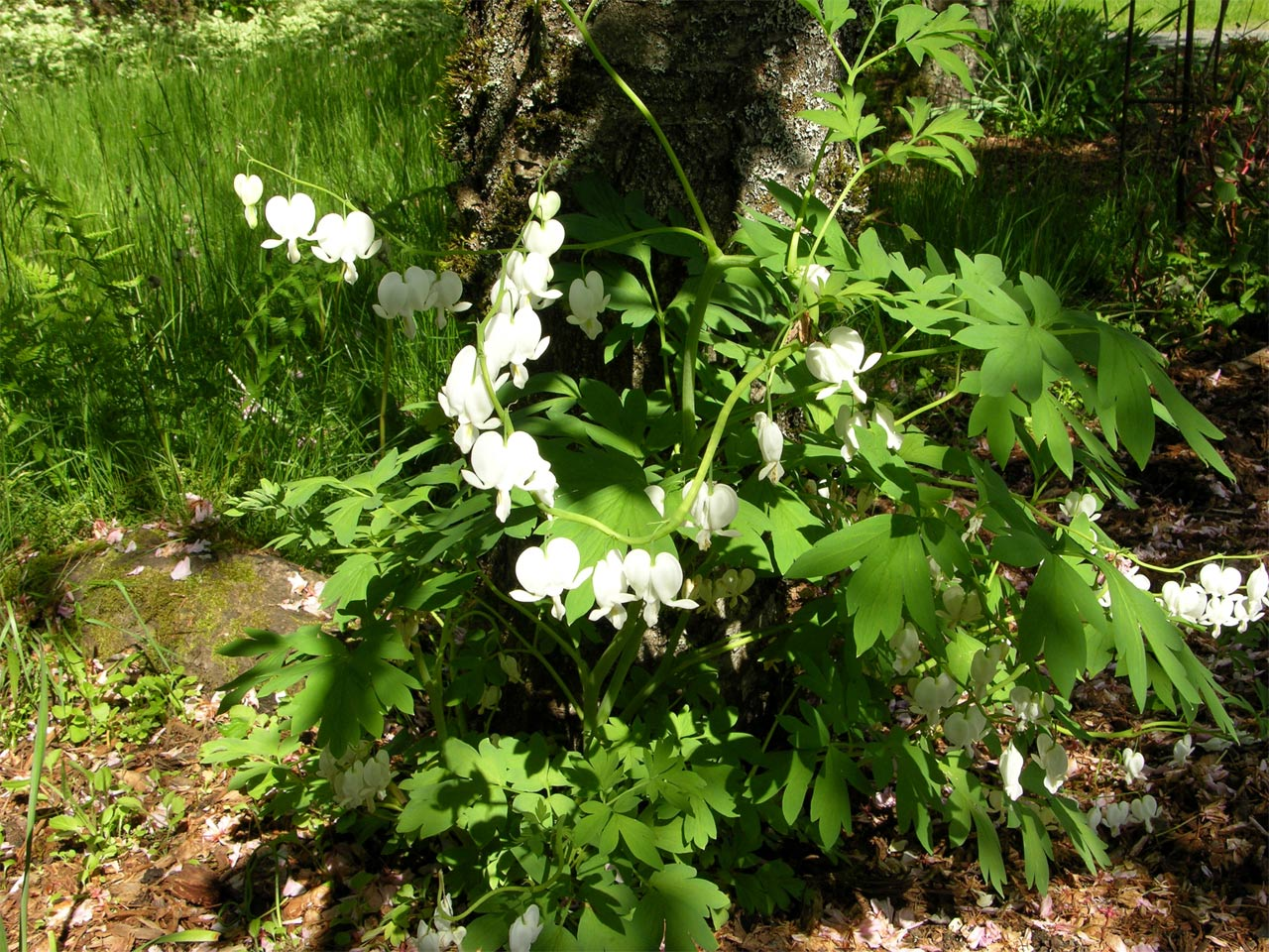 Wild-growing Dicentra (bleeding hearts), Renton, Washington, U.S.